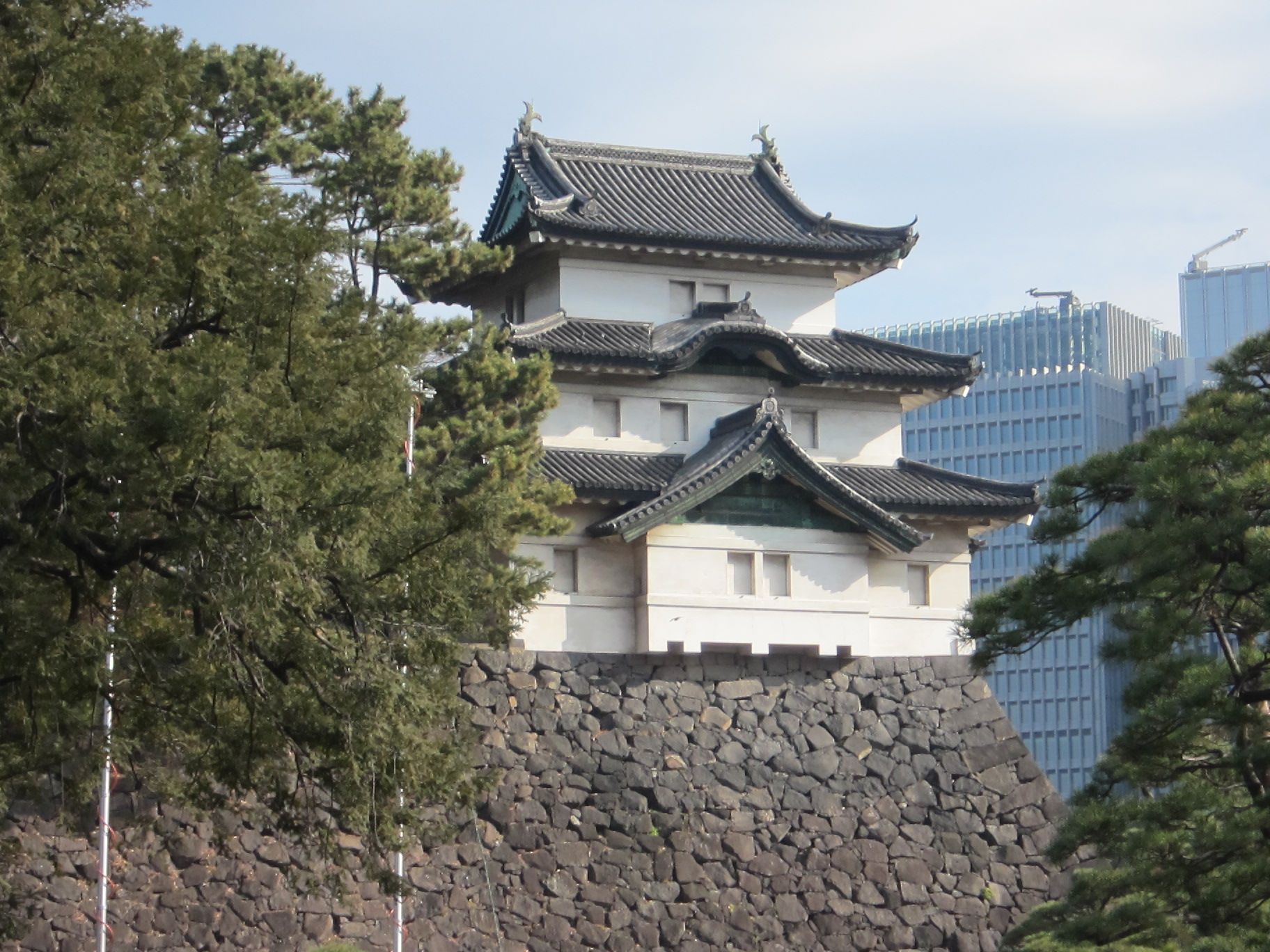 A Japanese Turret of The Edo Castle 1659, The Fujimi Yagura (A Turret of The Edo Castle) Now,A part of The Imperial Palace